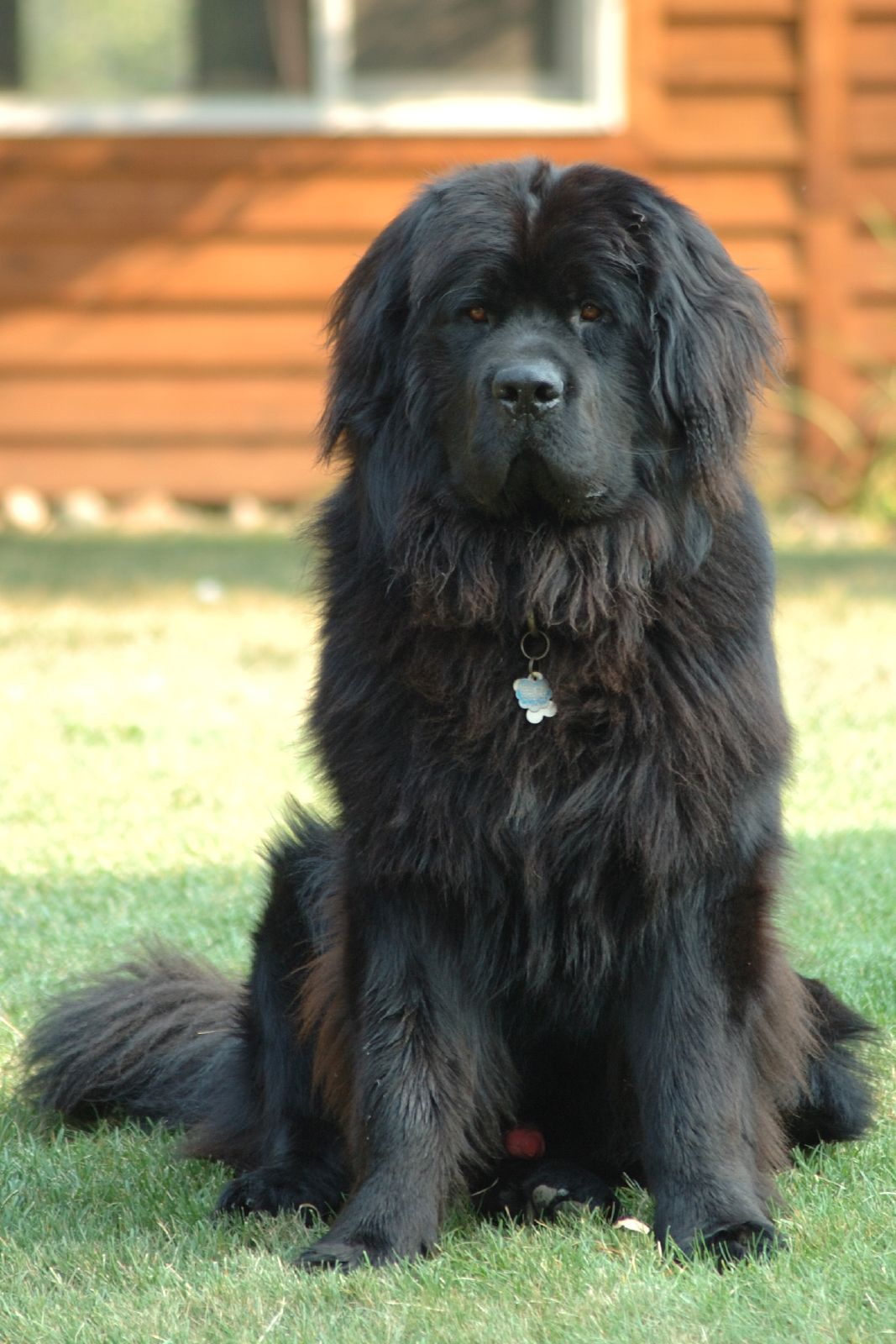 A sixteen-month-old Newfoundland named Smoky, who weighs about 60kg/140lb.